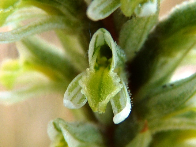 Brachystele unilateralis ¿Odontorrynchus domeykoanus?